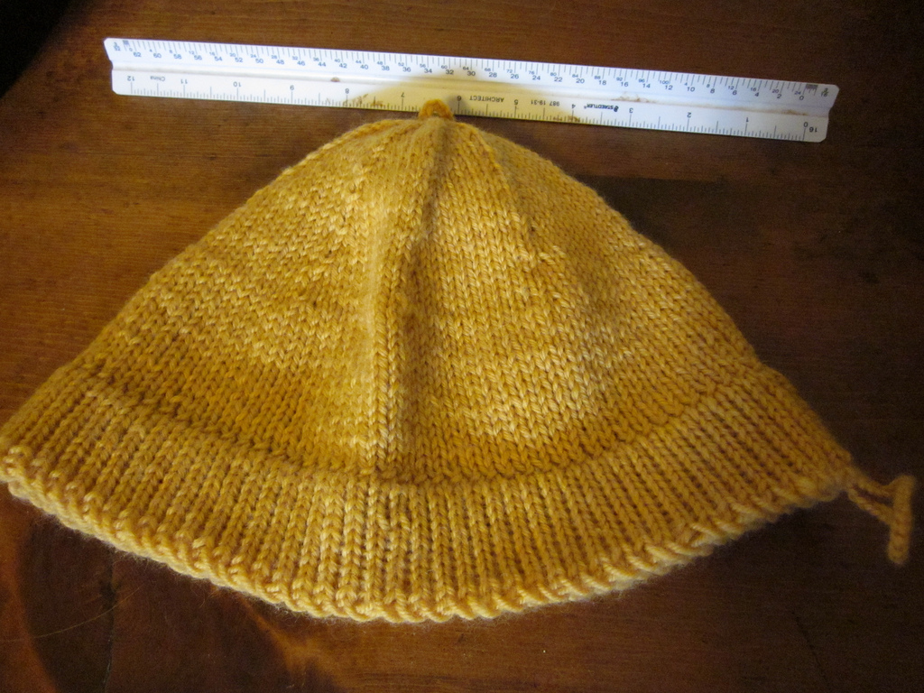 First completed Monmouth cap - this shot gives a more accurate color.